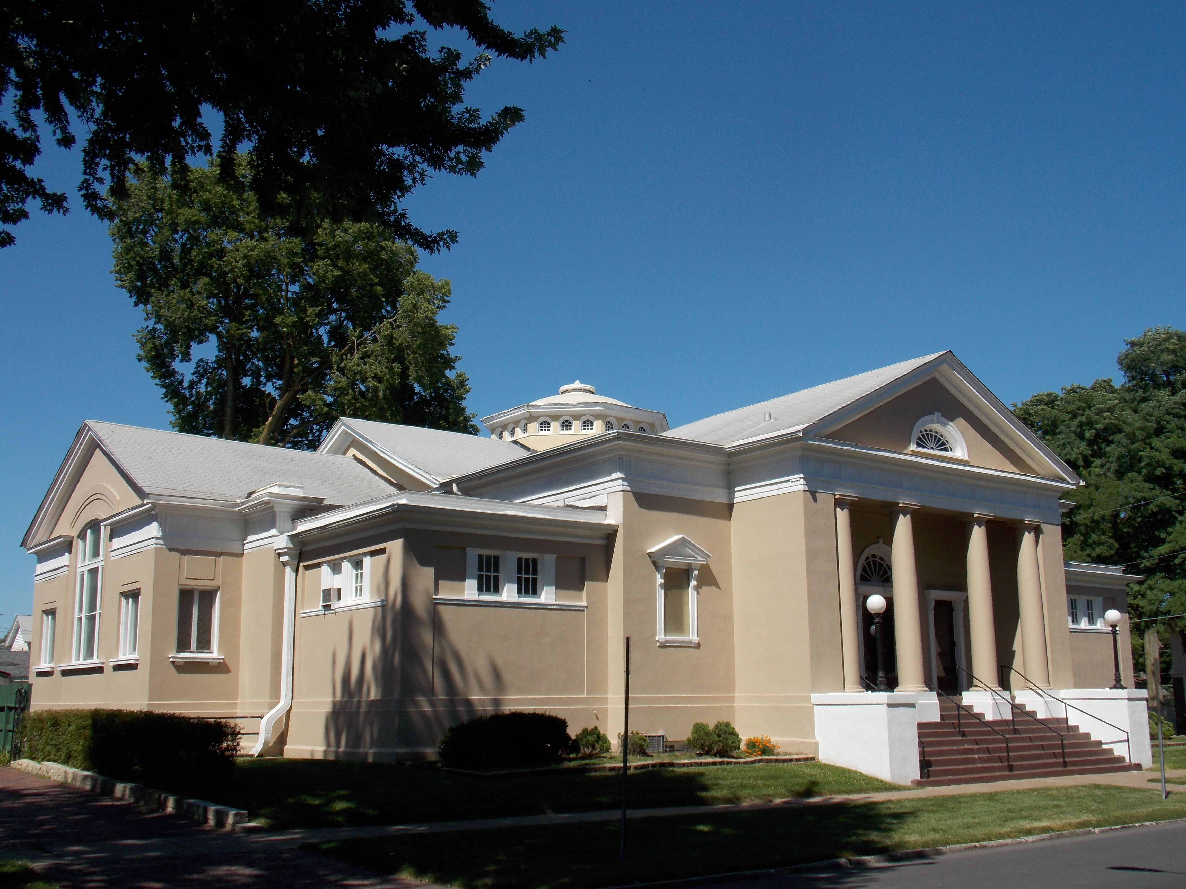 The Harvest Time Family Worship Center, formerly the First Church of Christ, Scientist on Kirkwood Blvd. in Davenport, Iowa. The building is listed on the National Register of Historic Places under its former name.